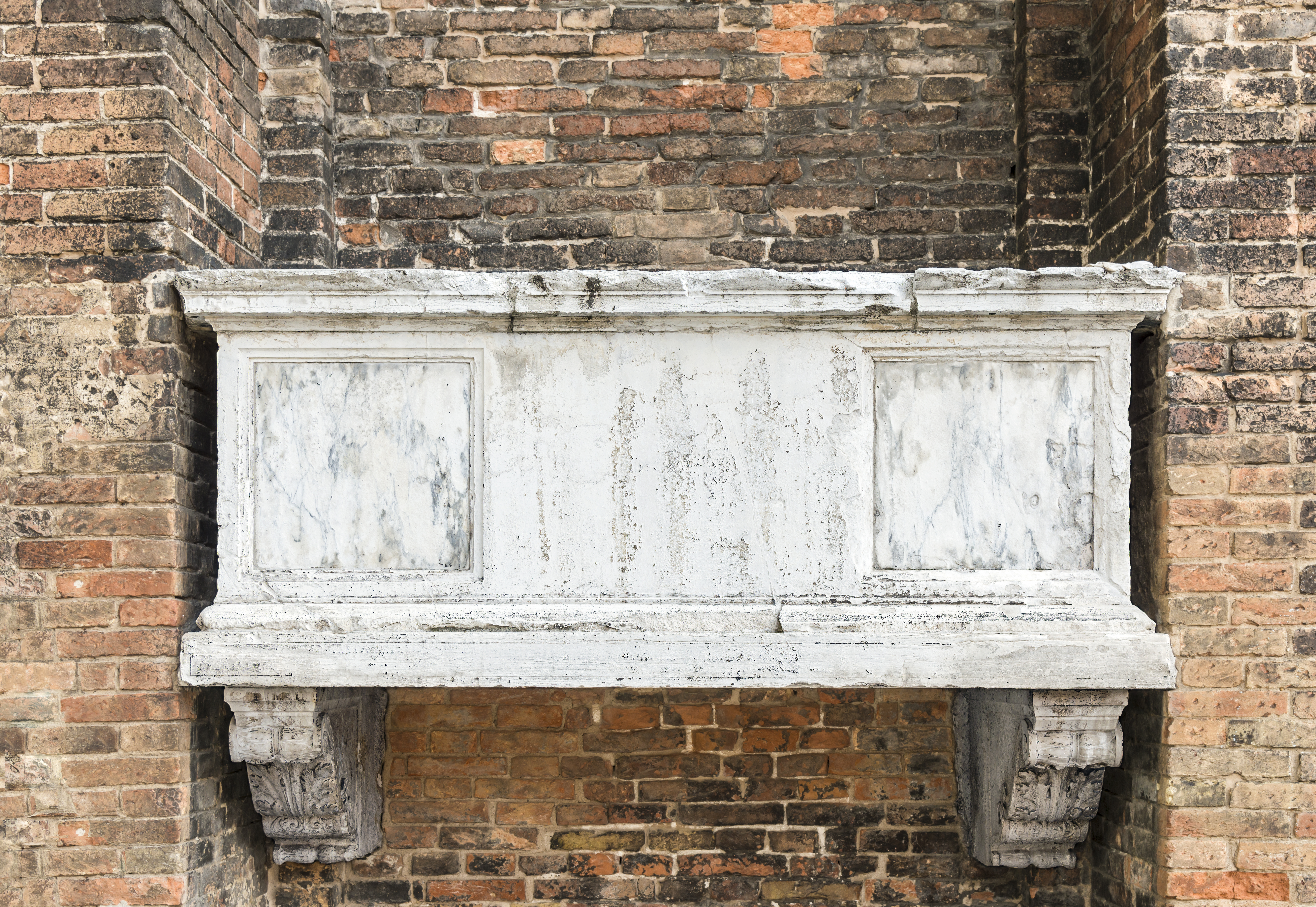 Santi Giovanni e Paolo, Venice - Facade - The sarcophagus of the Doge Marino Morosini, the first from the left along the facade.